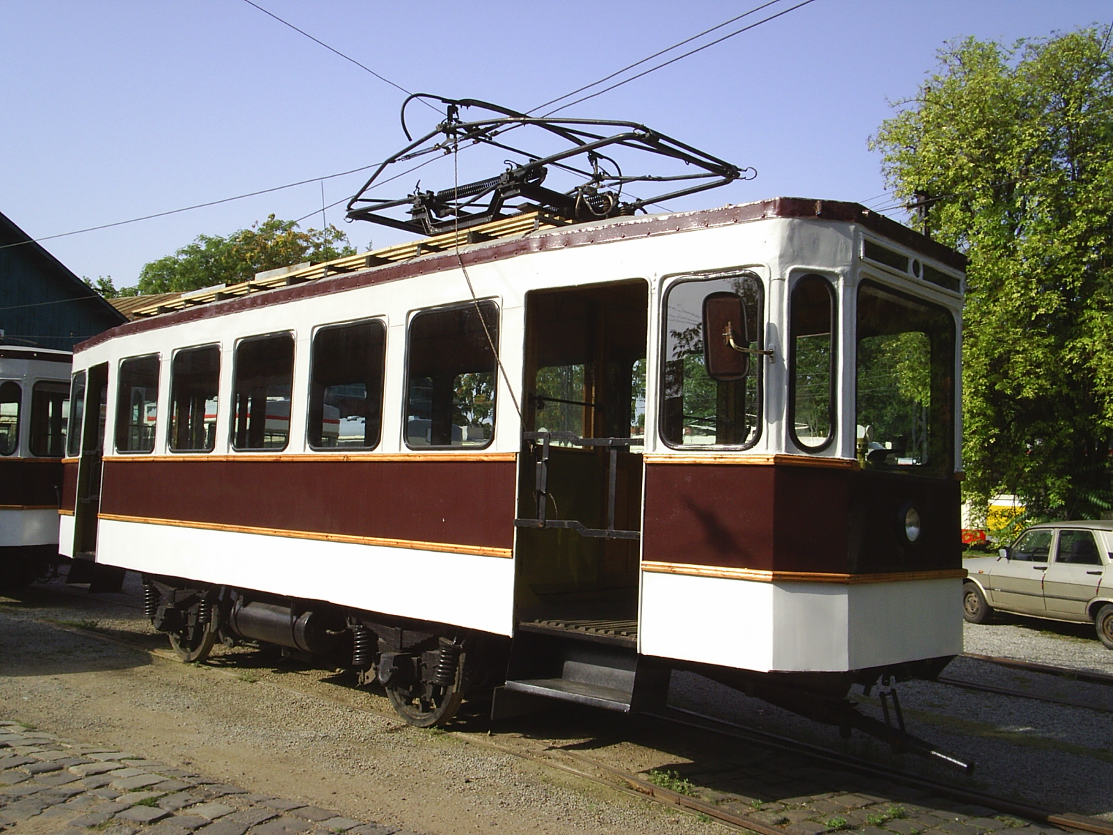 Gemene tram